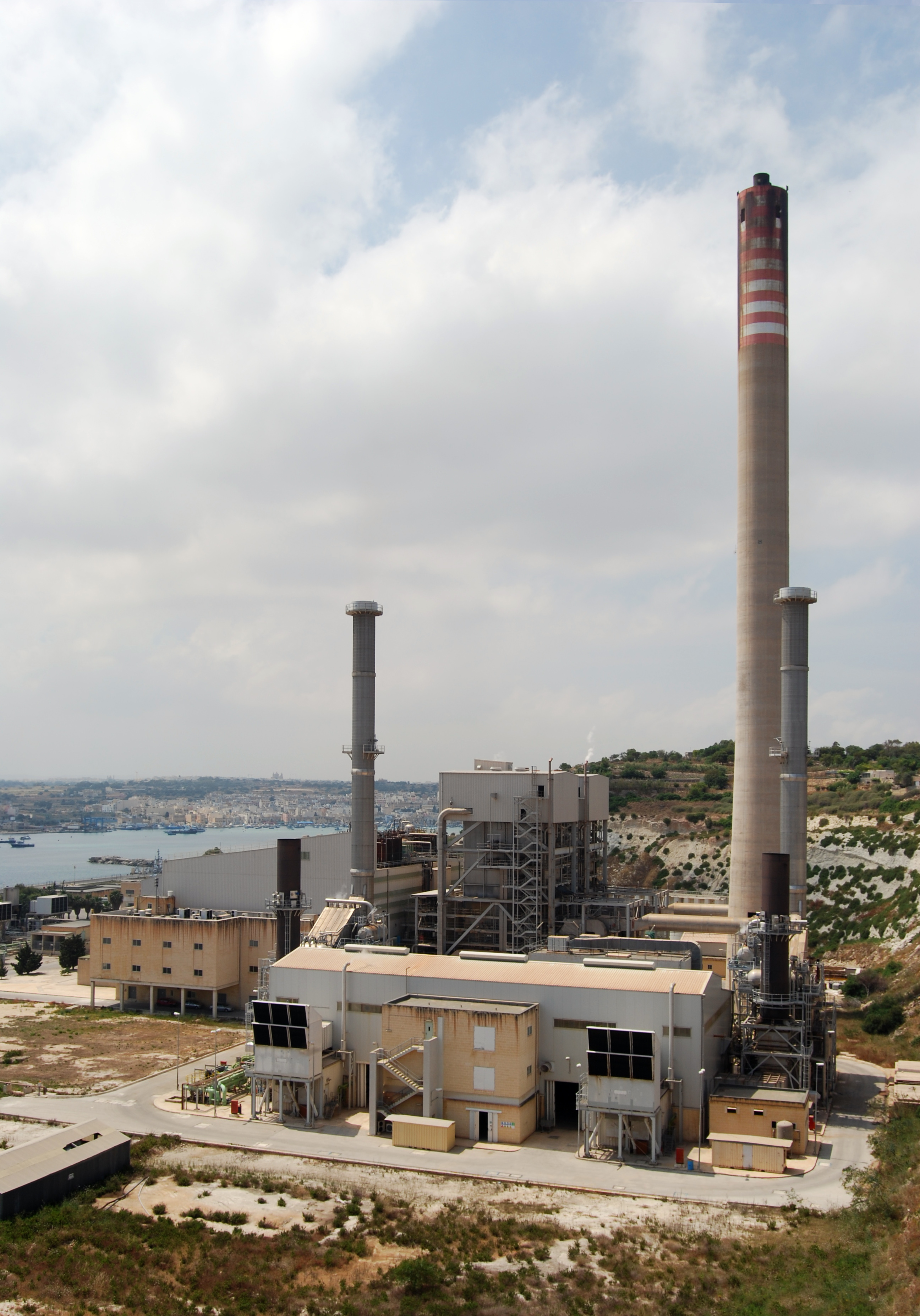 The oil-fired Delimara power station near Marsaxlokk, Malta with a maximal power of 304 MW. It was connected to electricity grid in 1992 and is operational since then.